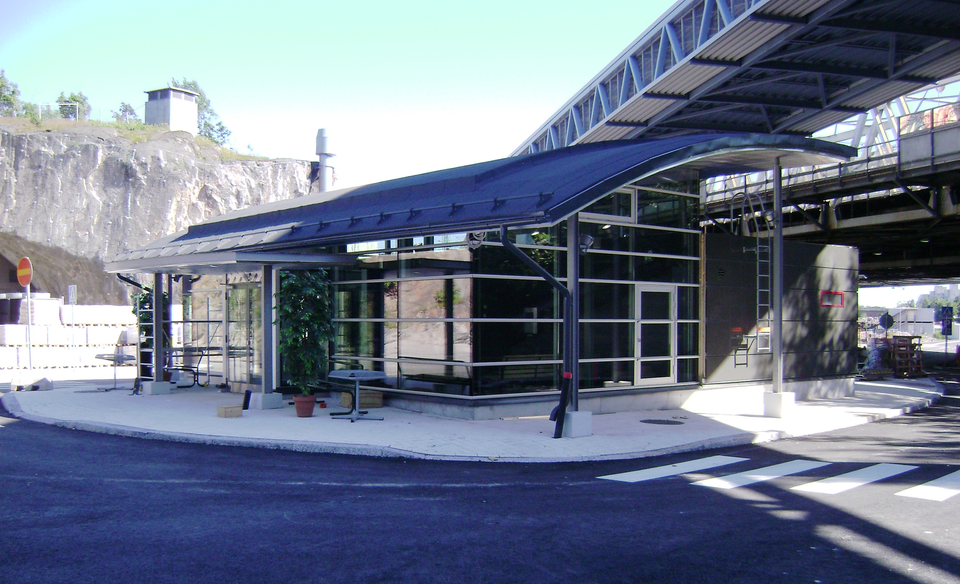 Pasila car train station building.